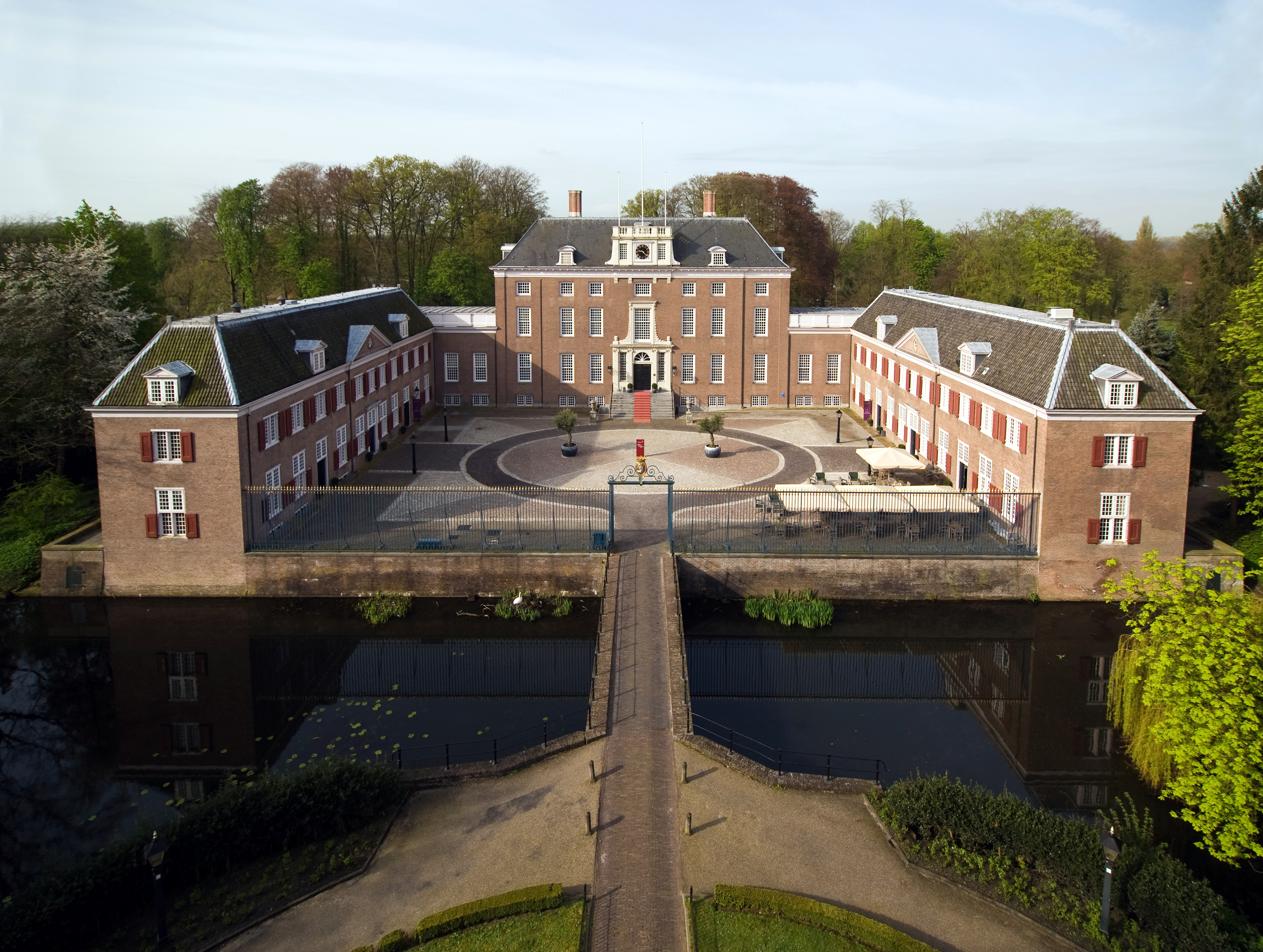 Castle Zeist